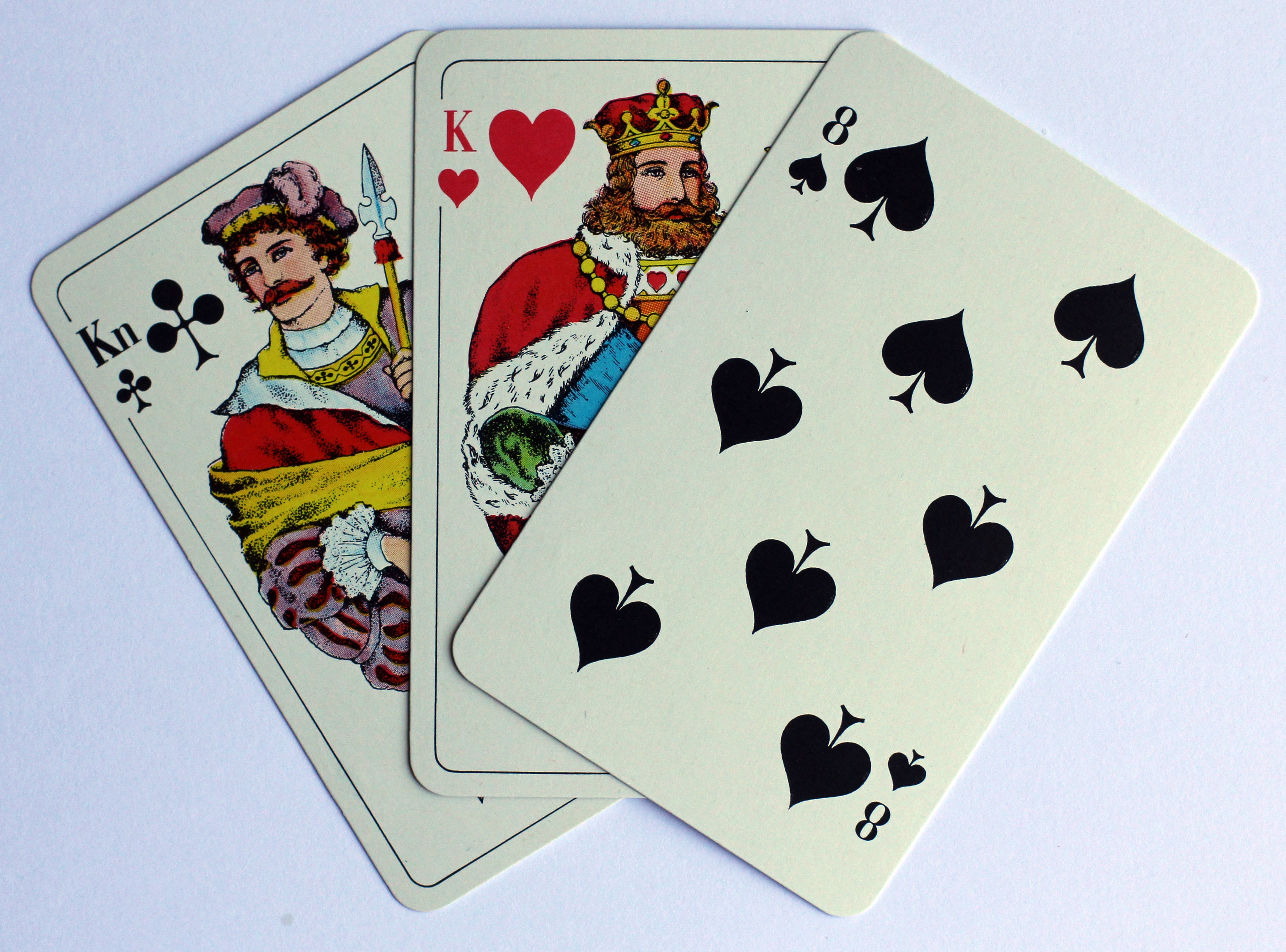 The three top trumps in the Icelandic game of Brús: the Knave of Clubs, King of Hearts and Eight of Spades. From a 'Modern Swedish' pattern pack.